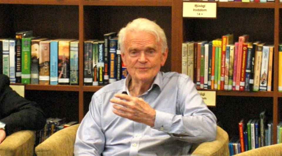 Pál Demény, demographer, at the Hungarian Central Statistical Office Library